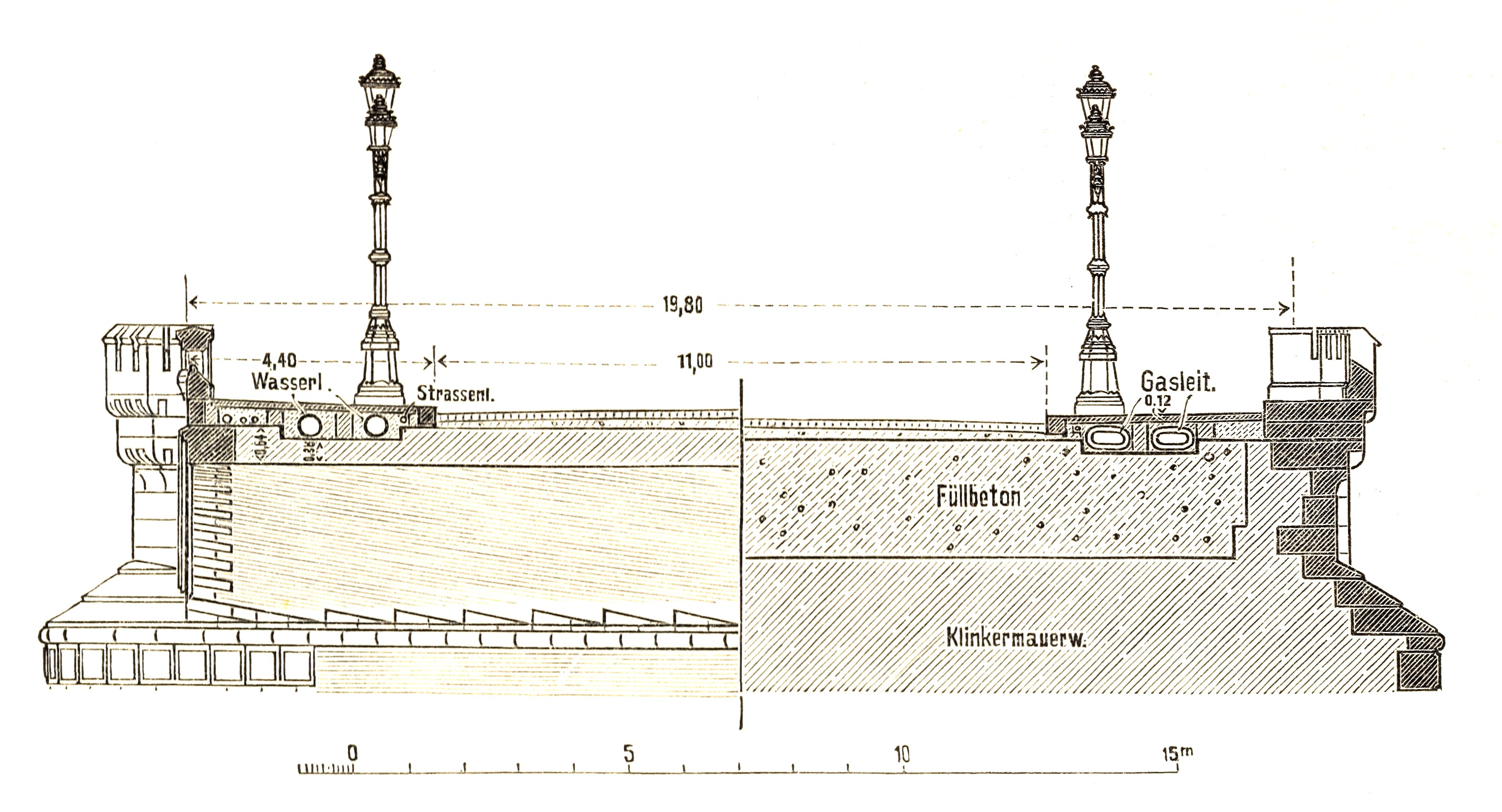 Berlin - Moabiter Brücke, section